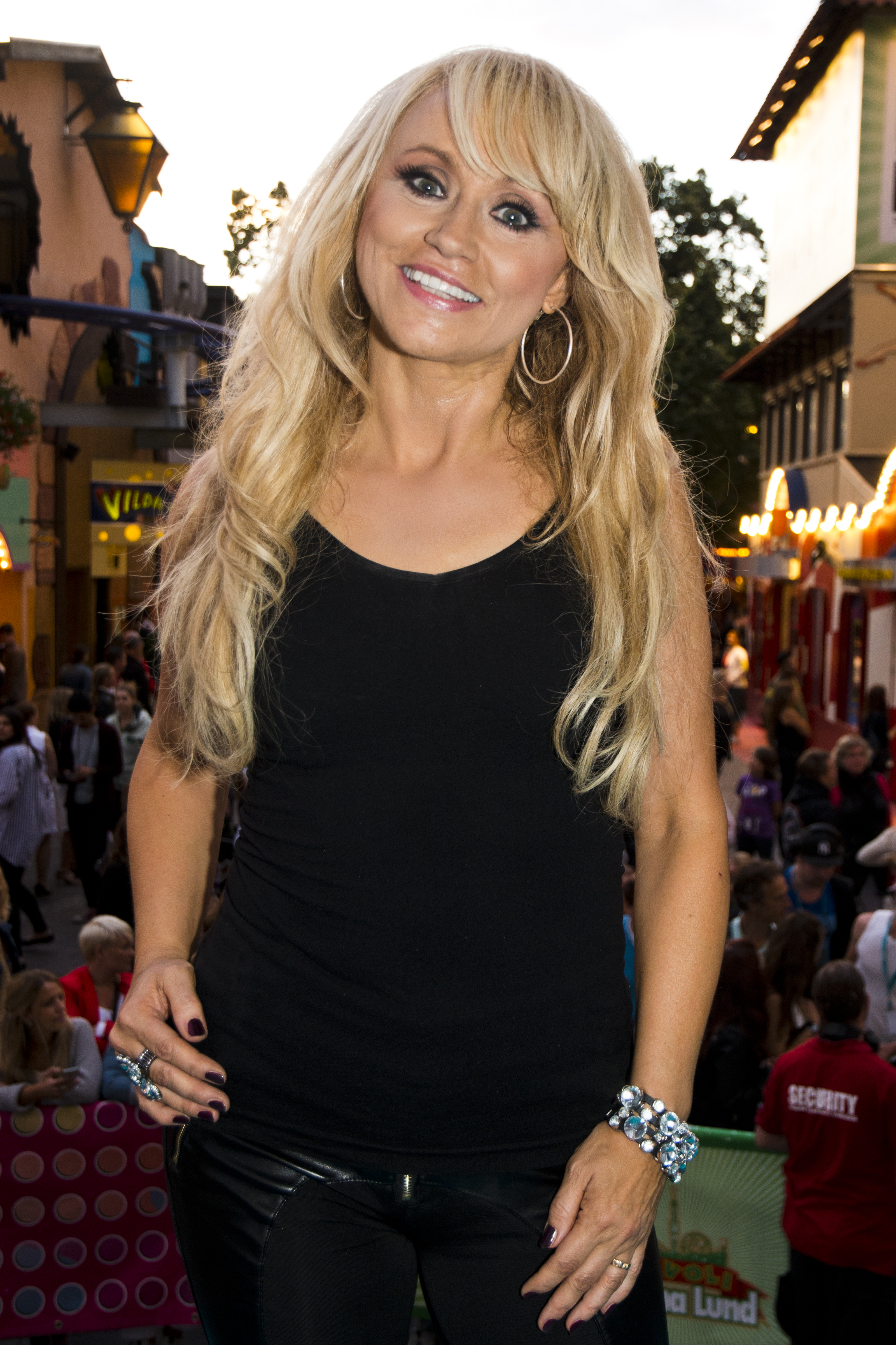 Nanne Grönvall guest at Sommarkrysset 2013 on Gröna Lund in Stockholm (Sweden)